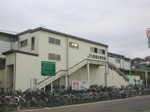 Niigata-Daigaku-mae Station on the Echigo Line in Niigata Prefecture, Japan